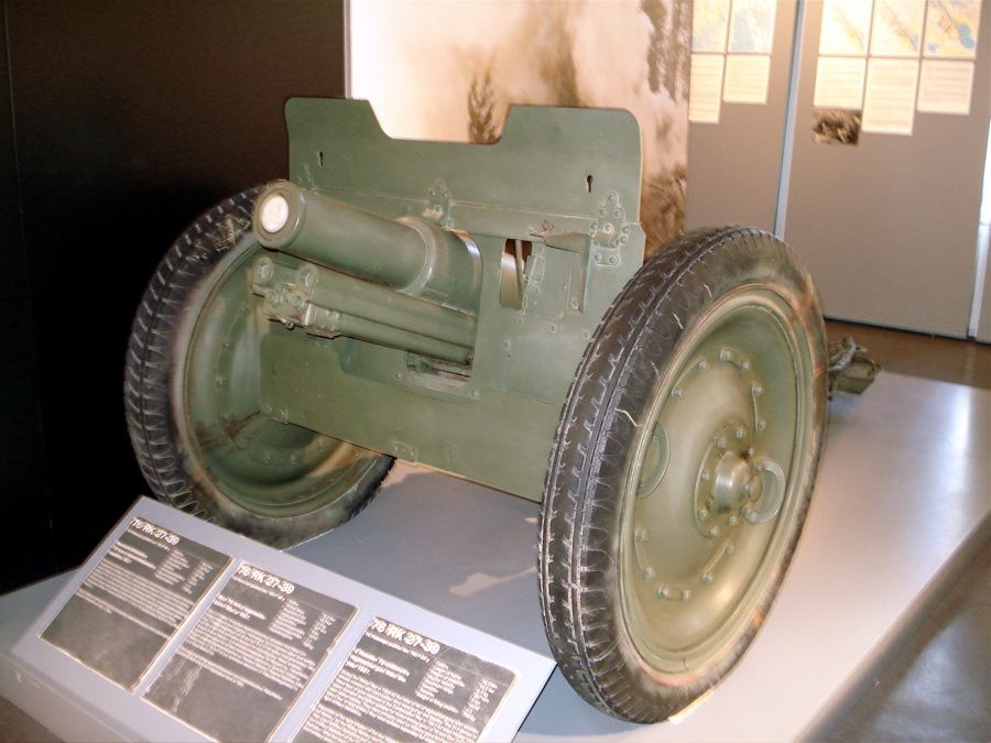 Soviet 76.2 mm regimental gun M1927-M1939, displayed in Hämeenlinna Artillery Museum. This improved version of the M1927 gun has rubber wheels better suitable for motor-towing. Photo taken on June 18, 2006. Source: Photo by me, User:Balcer.